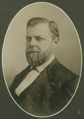 Abraham B. Gardner (Vermont lieutenant governor)